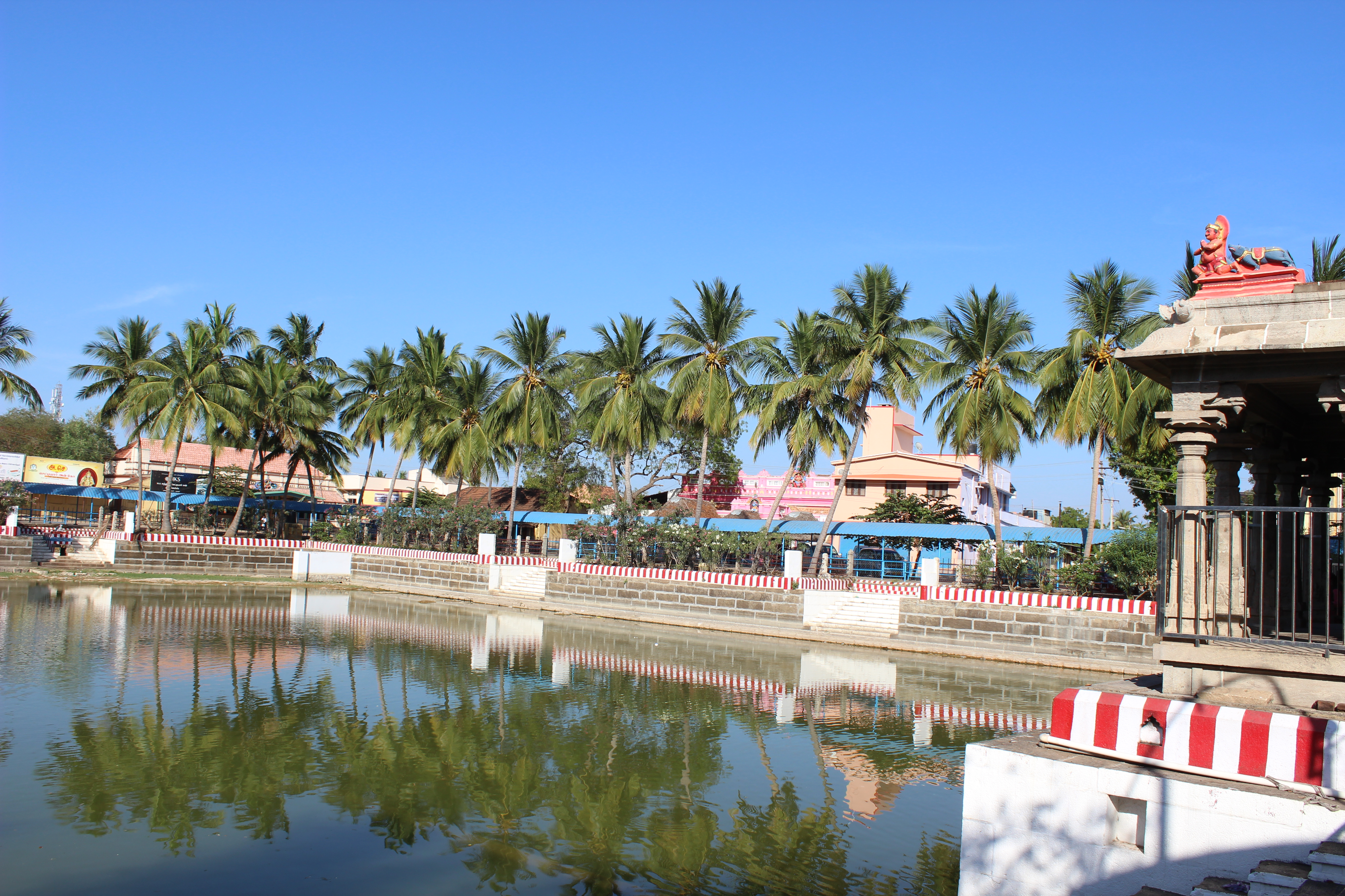 Pillaiyarpatti Karpaga Vinayagar Temple Pond